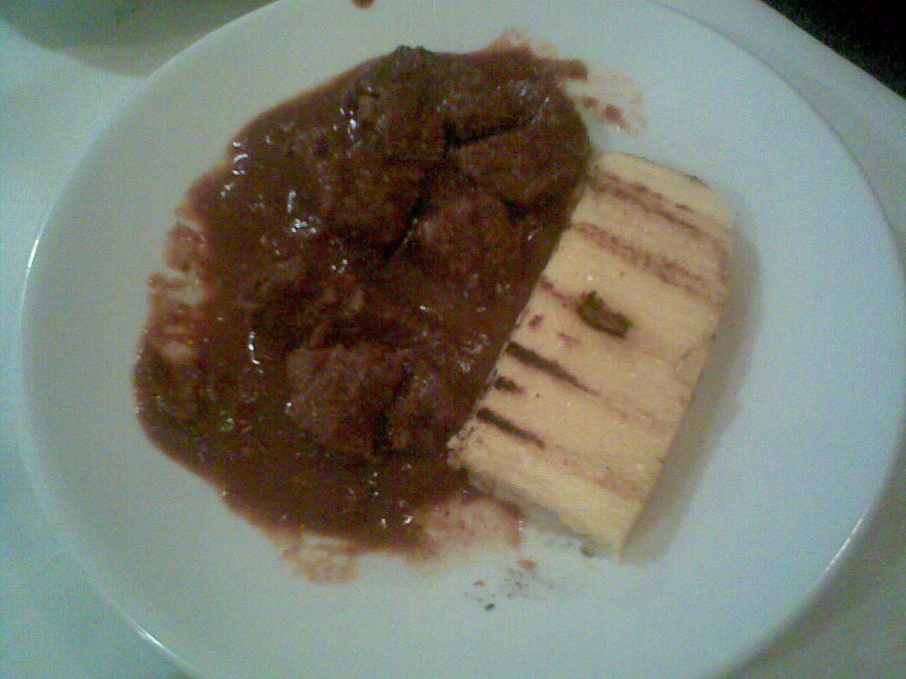 italian food Gulash